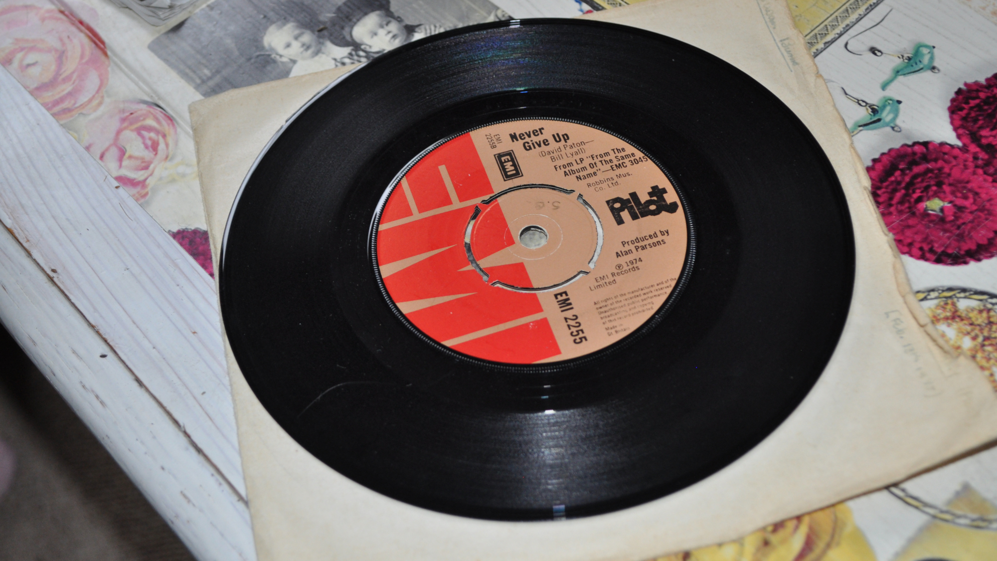 7" single with a notched small spindle hole that can be punched out for playing on larger spindles.